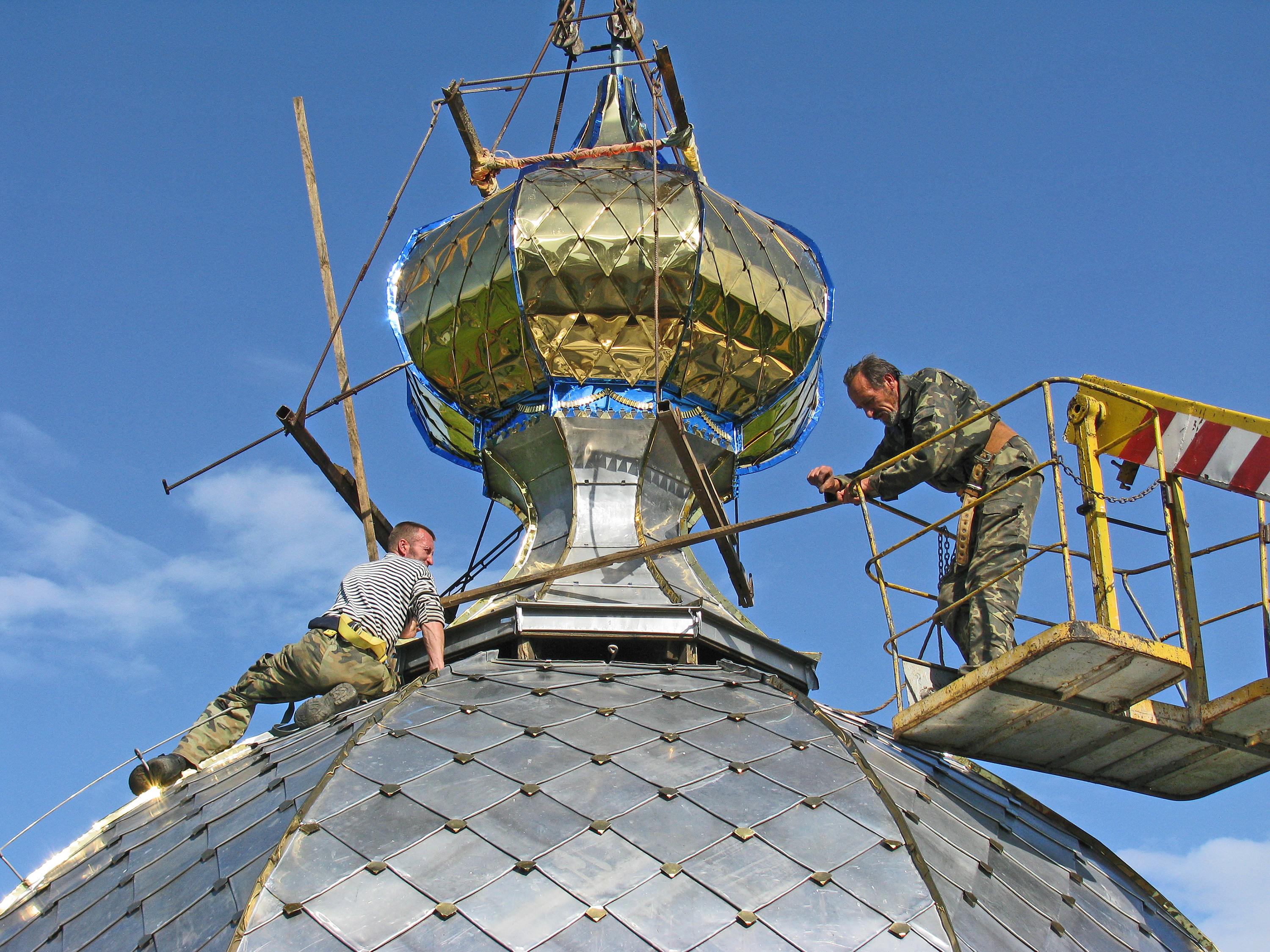 Historical moment July 9, 2010: installation of a dome of the temple in the village Borokhov